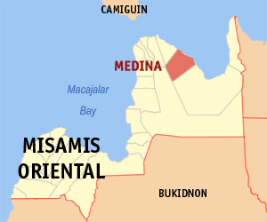 Map of the Misamis Oriental showing the location of Medina